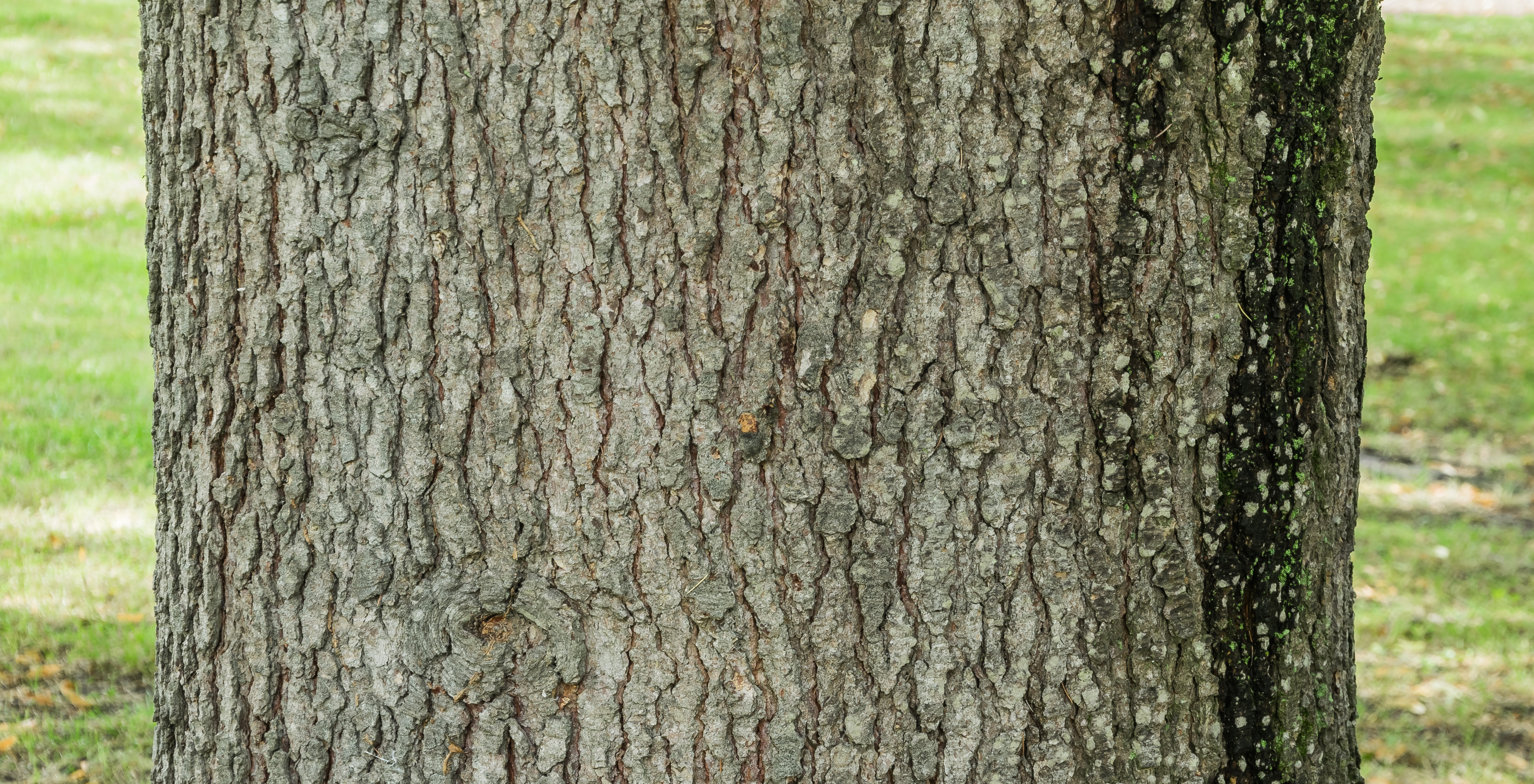 Bark of Atlas Cedar (Cedrus libani subsp. atlantica) in the garden of the castle of Cheverny, Loir-et-Cher, France